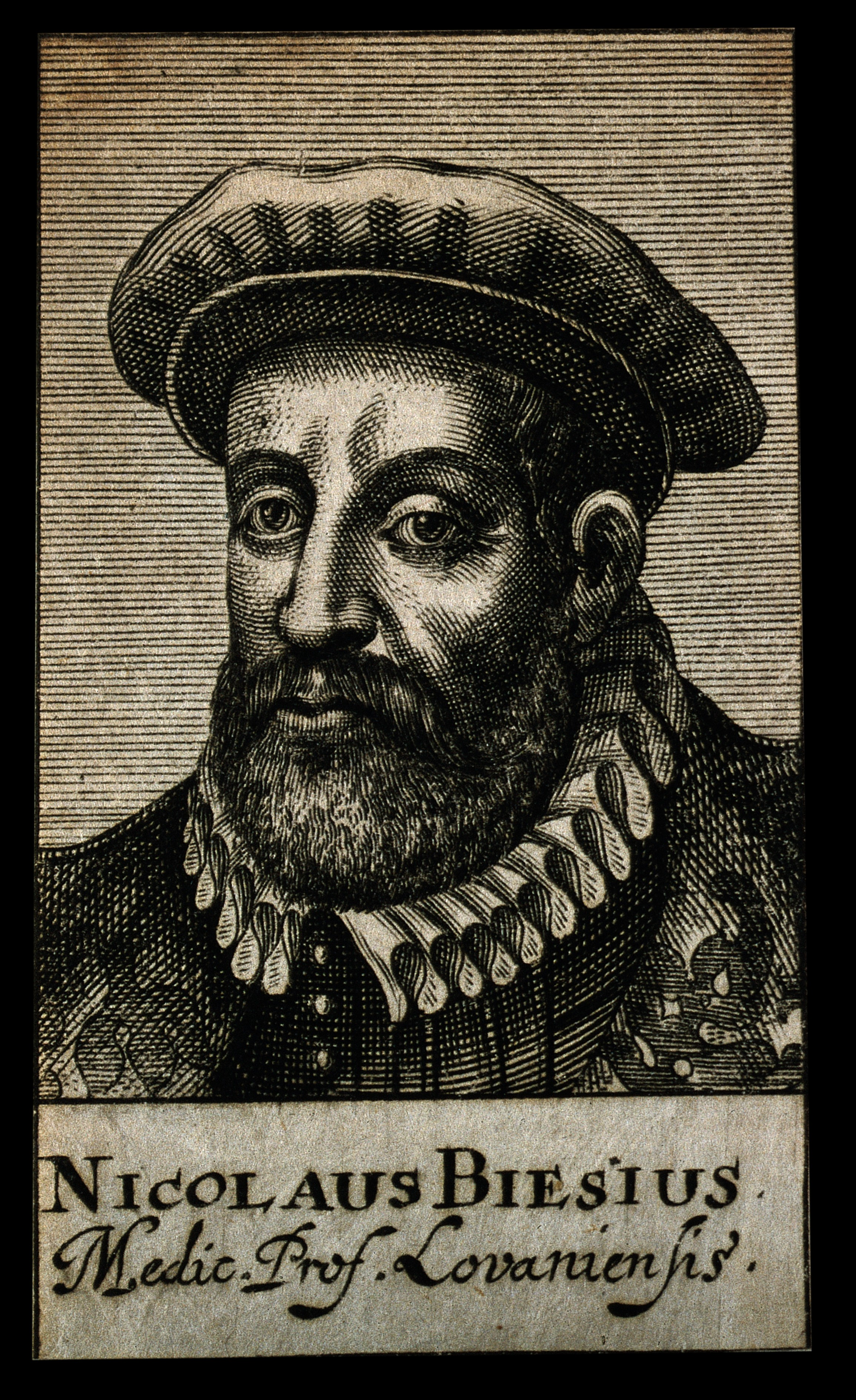 Nicolaus Biesius. Line engraving, 1688. Iconographic Collections Keywords: portrait prints; engravings; Nicolaus Biesius; biesius, nicolaus, 1516-1572